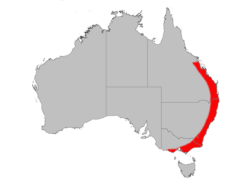 range of Rose Robin